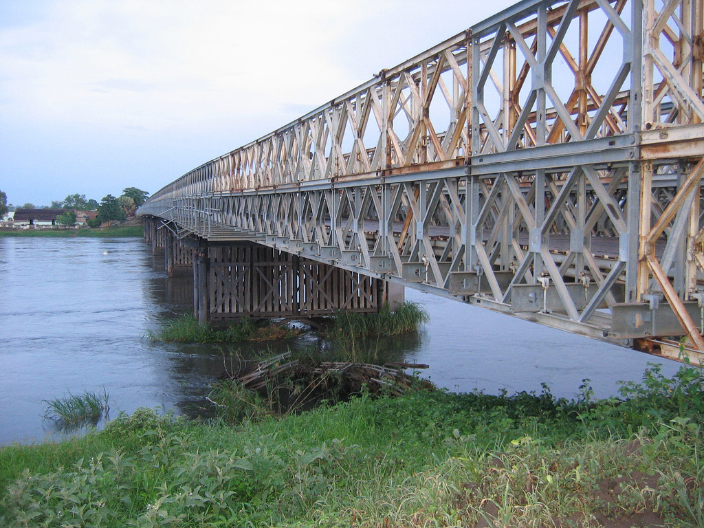 steel bridge over the White Nile in Juba, Equatoria, South Sudan